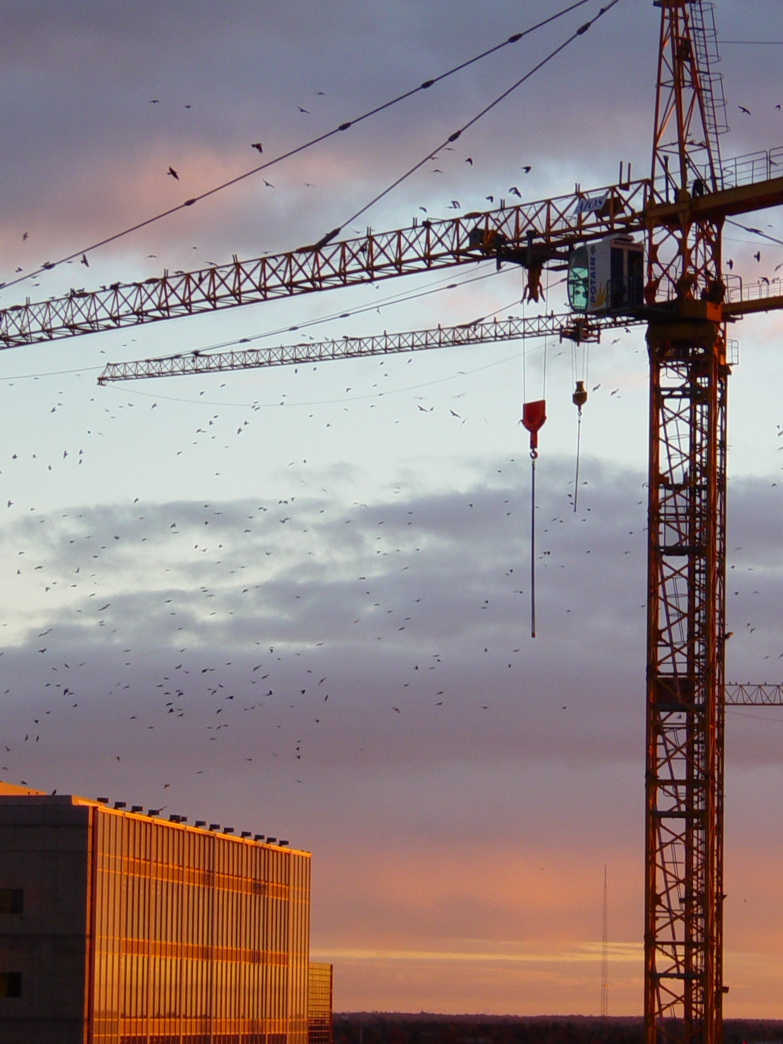 A crane with birds in the new suburb Ørestad in Copenhagen